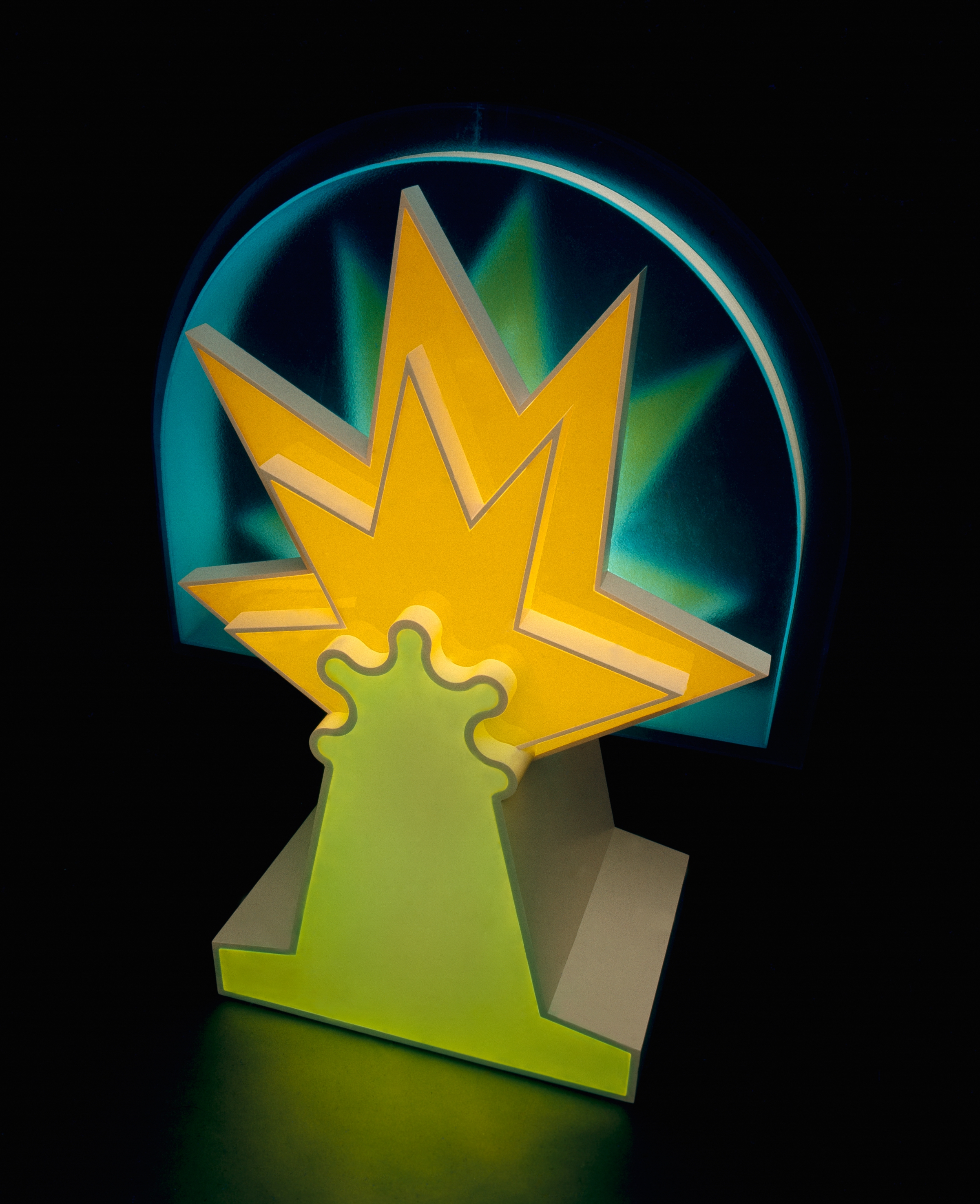 Lamp “Star”, 1973, by George Sowden.